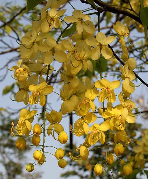 Cassia fistula - Amaltas, Indian Laburnum, Golden Shower Tree or Golden Shower Cassia, Bandarlathi, Bahava, Girimala, Rajbrikh, Garmalo, Bahava, Bawa, Garmala or Kani Poo in Sanjeevaiah Park, Hyderabad, India.